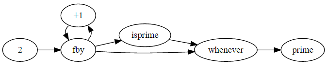 Prime numbers sequence dataflow diagram (Lucid)